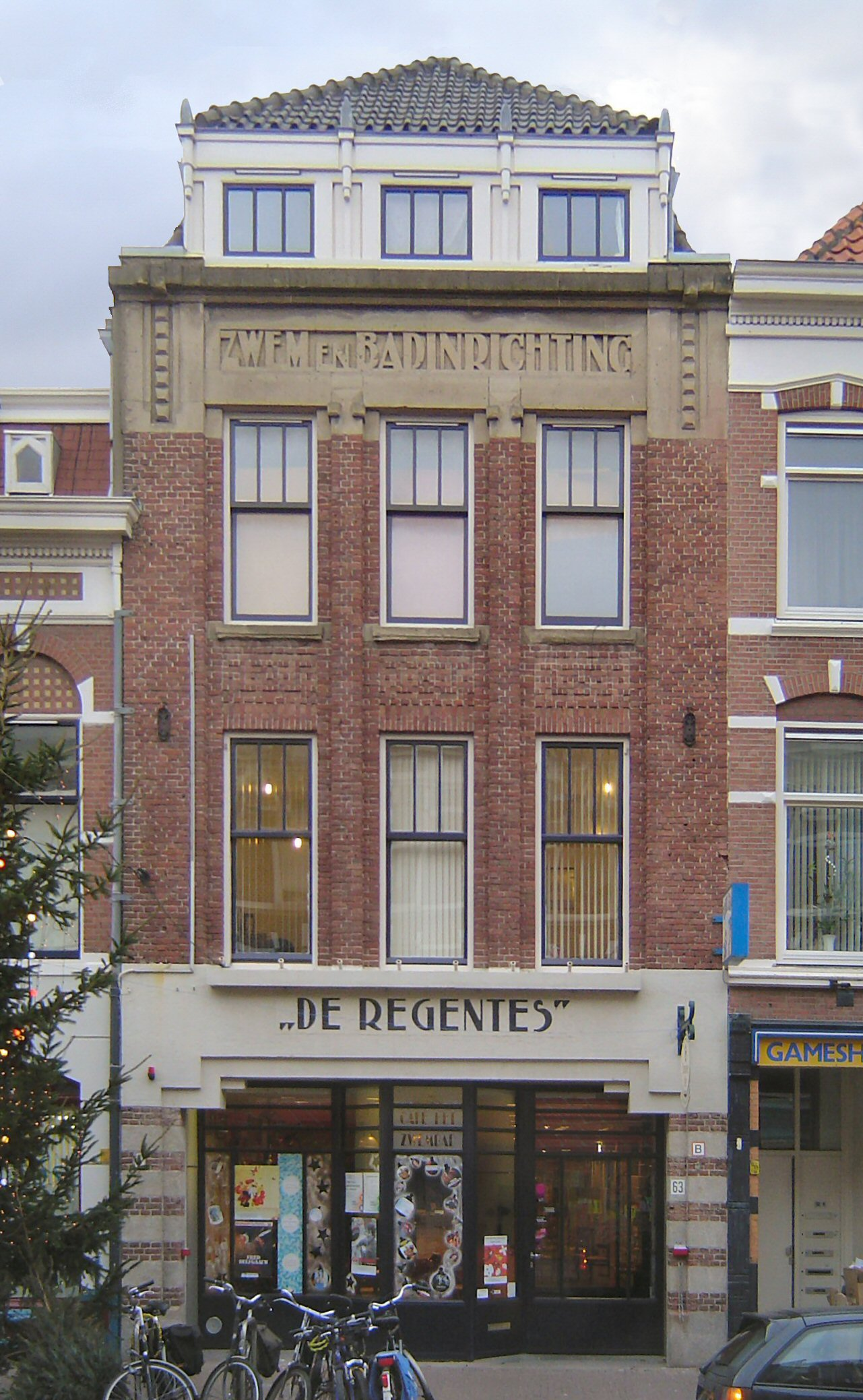 Former bathhouse and swimming pool "De Regentes", now a small theatre in the neighbourhood Het Regentessekwartier in The Hague. Author: Frank Kam, Dec 28, 2005